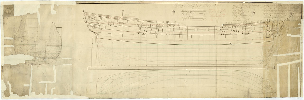 The body plan, sheer lines, and longitudinal half-breadth for building Cornwall (1761), Arrogant (1761), and Kent (1762), and later for Defence (1763), Edgar (1779), Goliath (1781), Vanguard (1787), Excellent (1787), Saturn (1786), Elephant (1786), Illustrious (1789), Bellerophon (1786), Zealous (1785), and Audacious (1785), all 74-gun Third Rate, two-deckers.